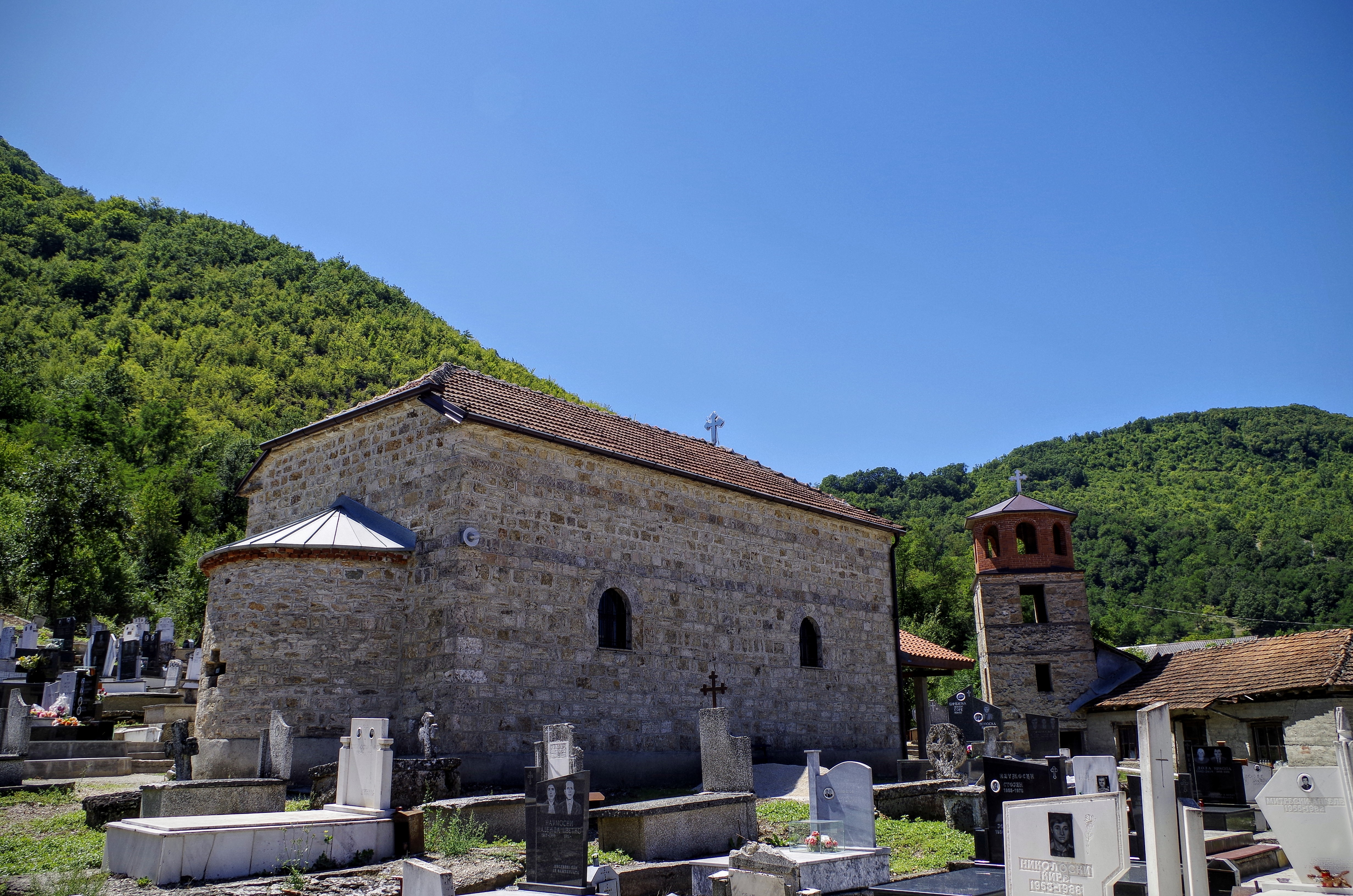 View of the St. Nicholas Church in the village Lešani, Macedonia